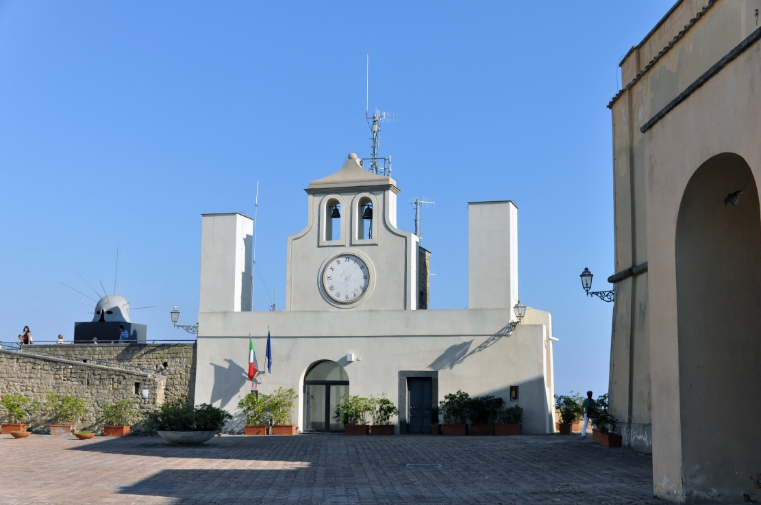 Neapel 2012